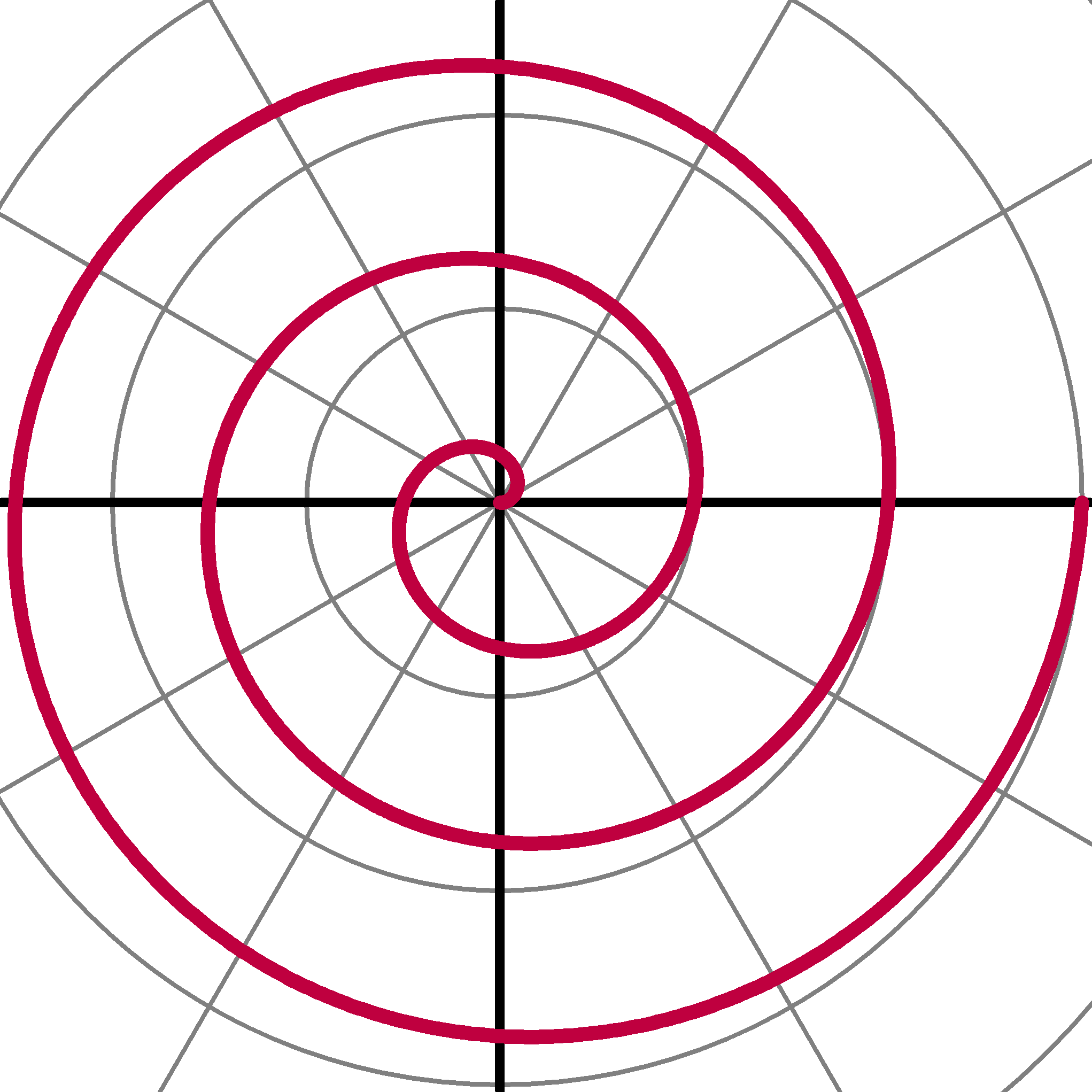 The Archimedean spiral